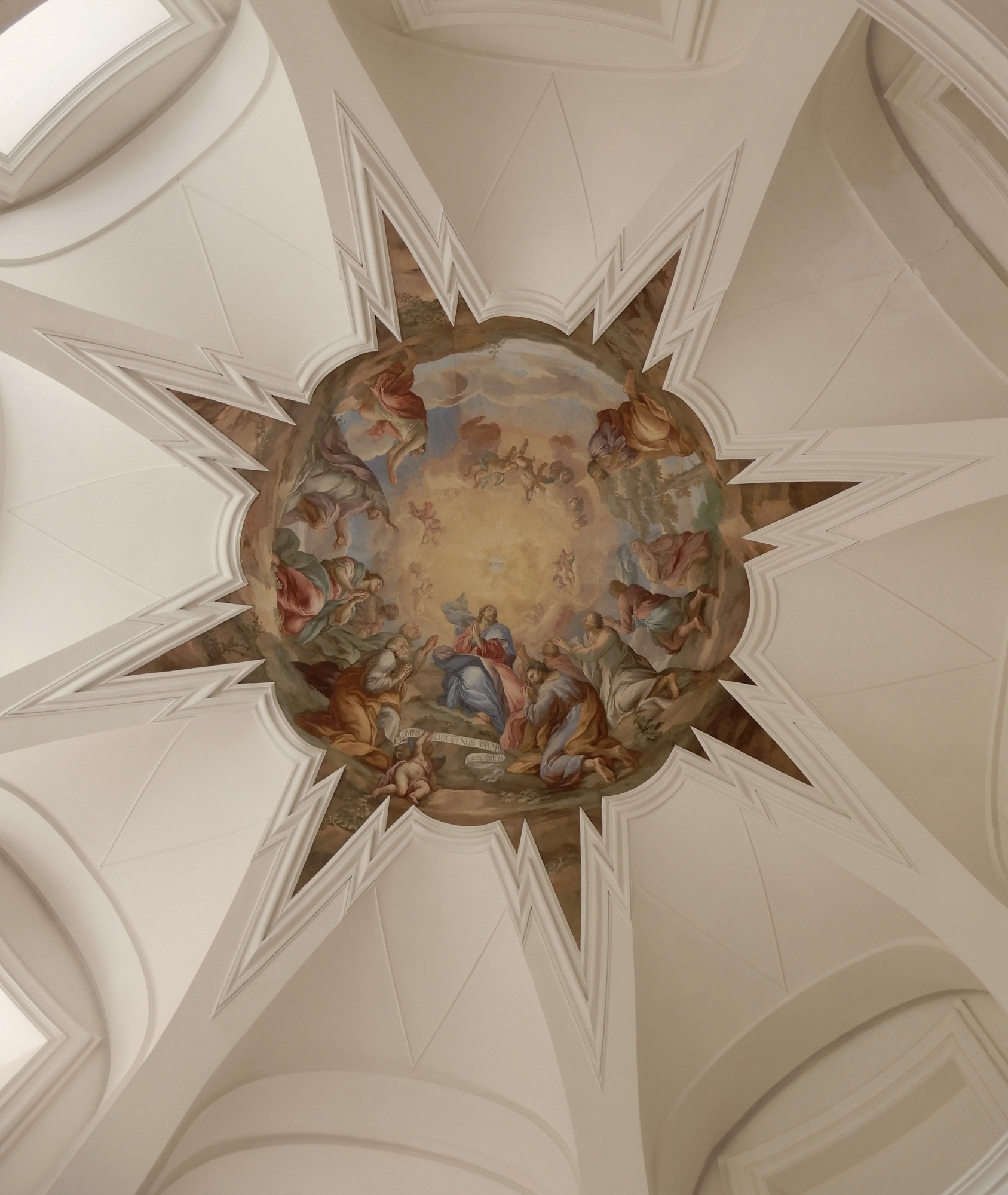 Plasy monastery, vault of Chapel, painted by J.A.Pink